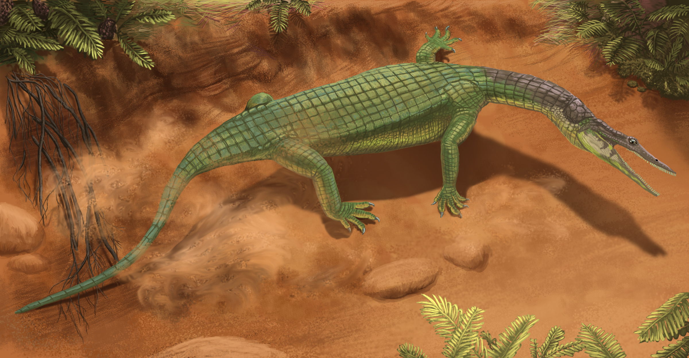 Life restoration of Archeopelta arborensis. Proportions based on Figure 3 of "An unusual new archosauriform from the Middle–Late Triassic of southern Brazil and the monophyly of Doswelliidae" by Julia B. Desojo, Martin D. Ezcurra and Cesar L. Schultz (Zoological Journal of the Linnean Society 161 (4): 839–871). Osteoderms based on those of Doswellia, described in "An unusual newly discovered archosaur from the Upper Triassic of Virginia, U.S.A." by Robert E. Weems (Transactions of the American Philosophical Society 70 (7): 1-53).